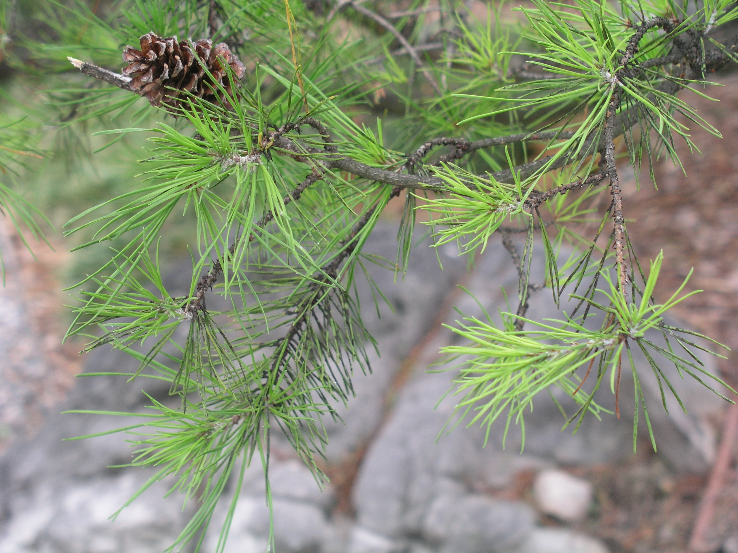 Pinus virginiana needles and cone (originally uploaded by User:Leitpeter as Image:Pinus Densiflora.JPG; bad filename)